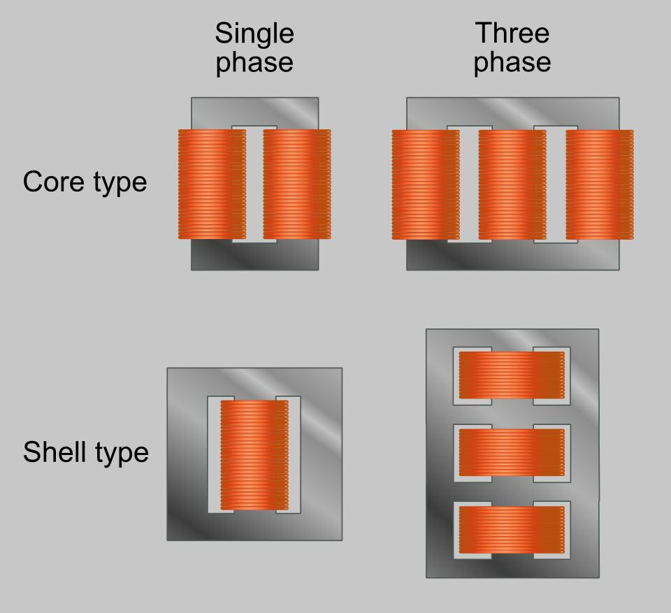 Transformer core, (transfered from WP:en)